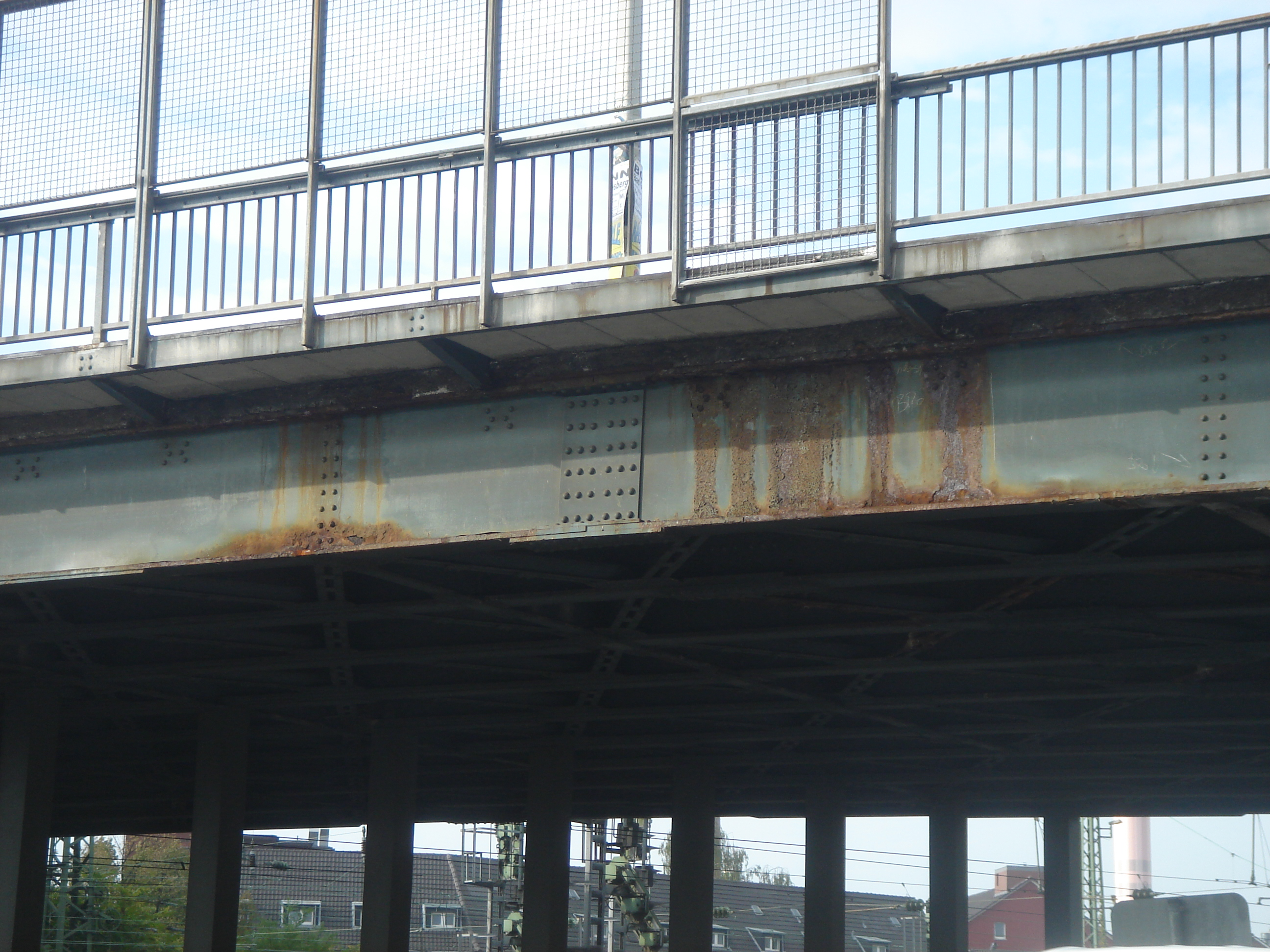 Rust on the Viktoriabrücke bridge in Bonn, Germany.